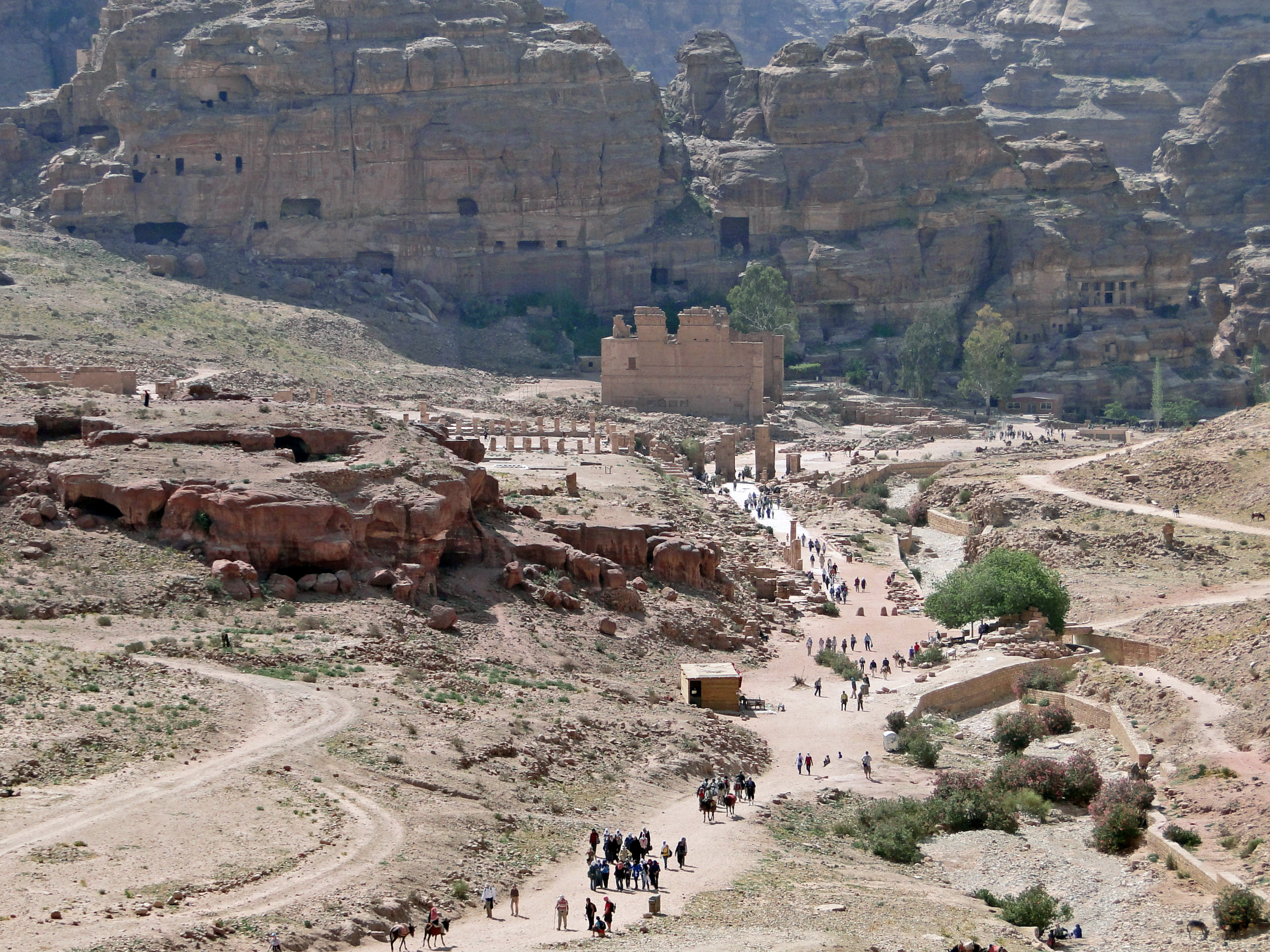 The lower city of Petra seen from the Corinthian Tomb, Jordan